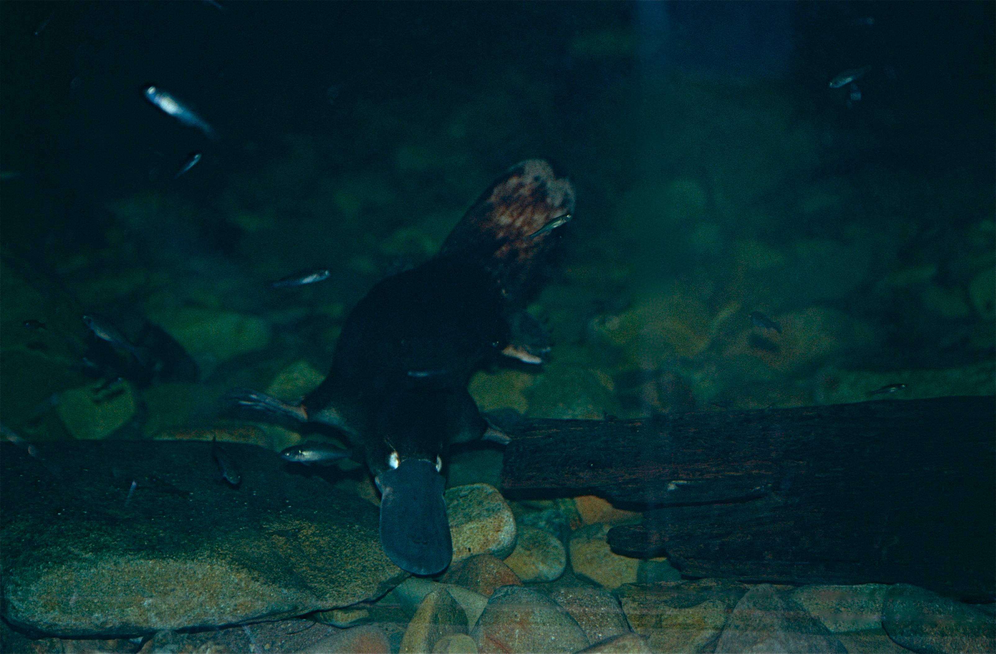 David Fleay Wildlife Park, Burleigh Heads, Gold Coast, South Queensland, AUSTRALIA Scanned Slide from Dec 2000